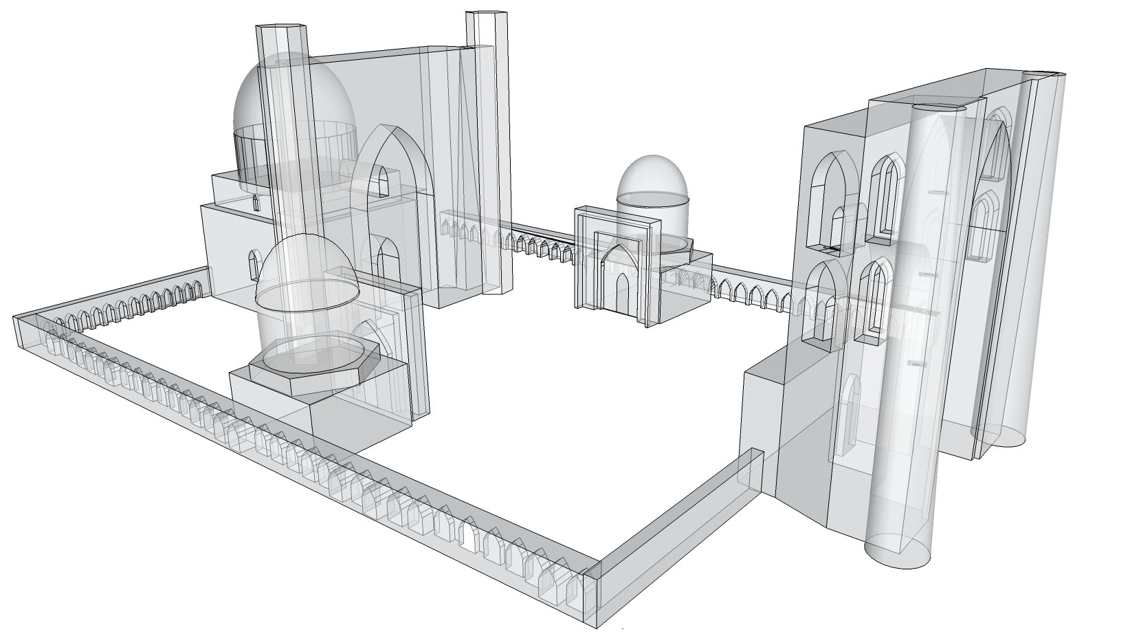 Bibi Khanum Mosque Samarkand